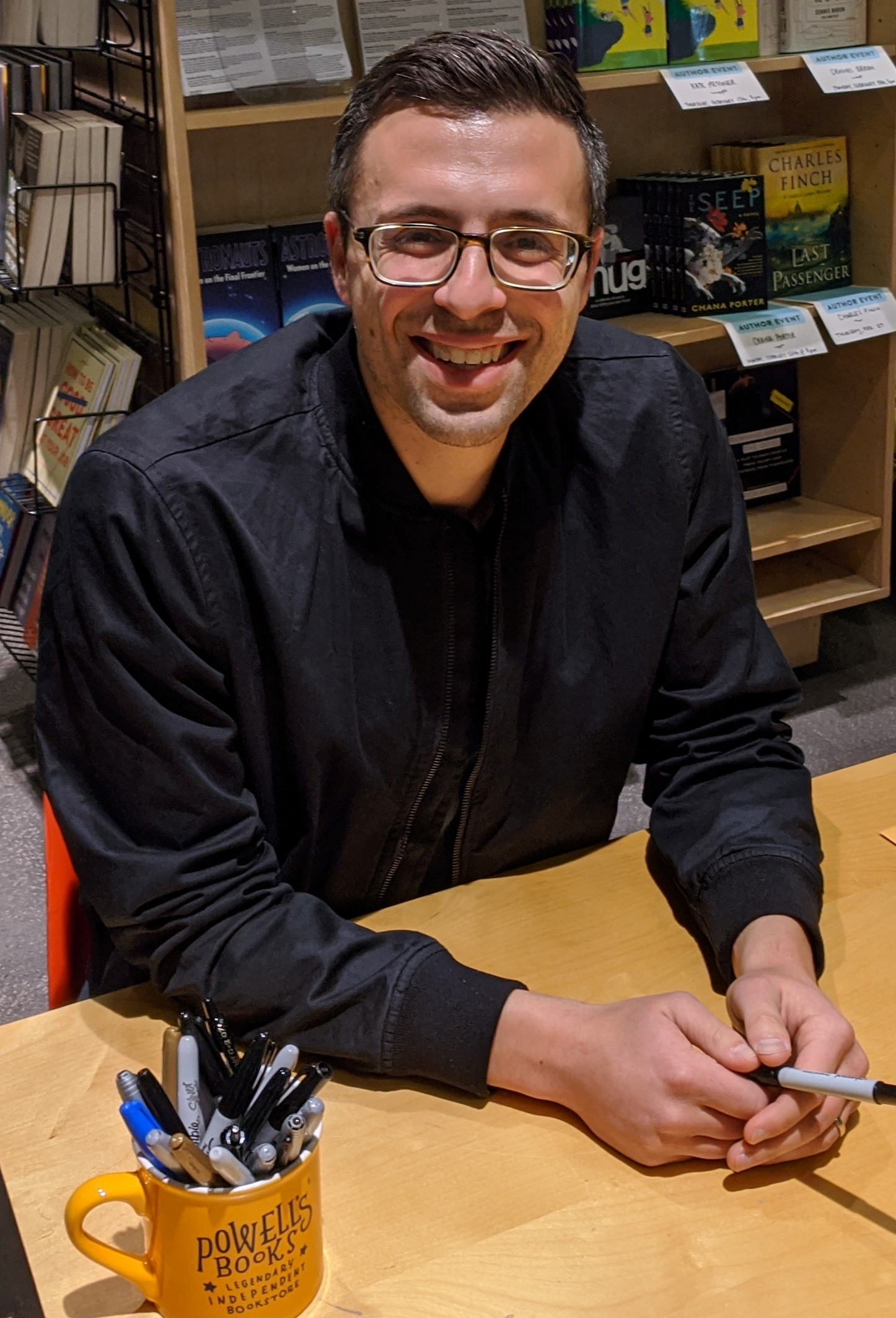 Cropped version of File:Ezra Klein in 2020.jpg